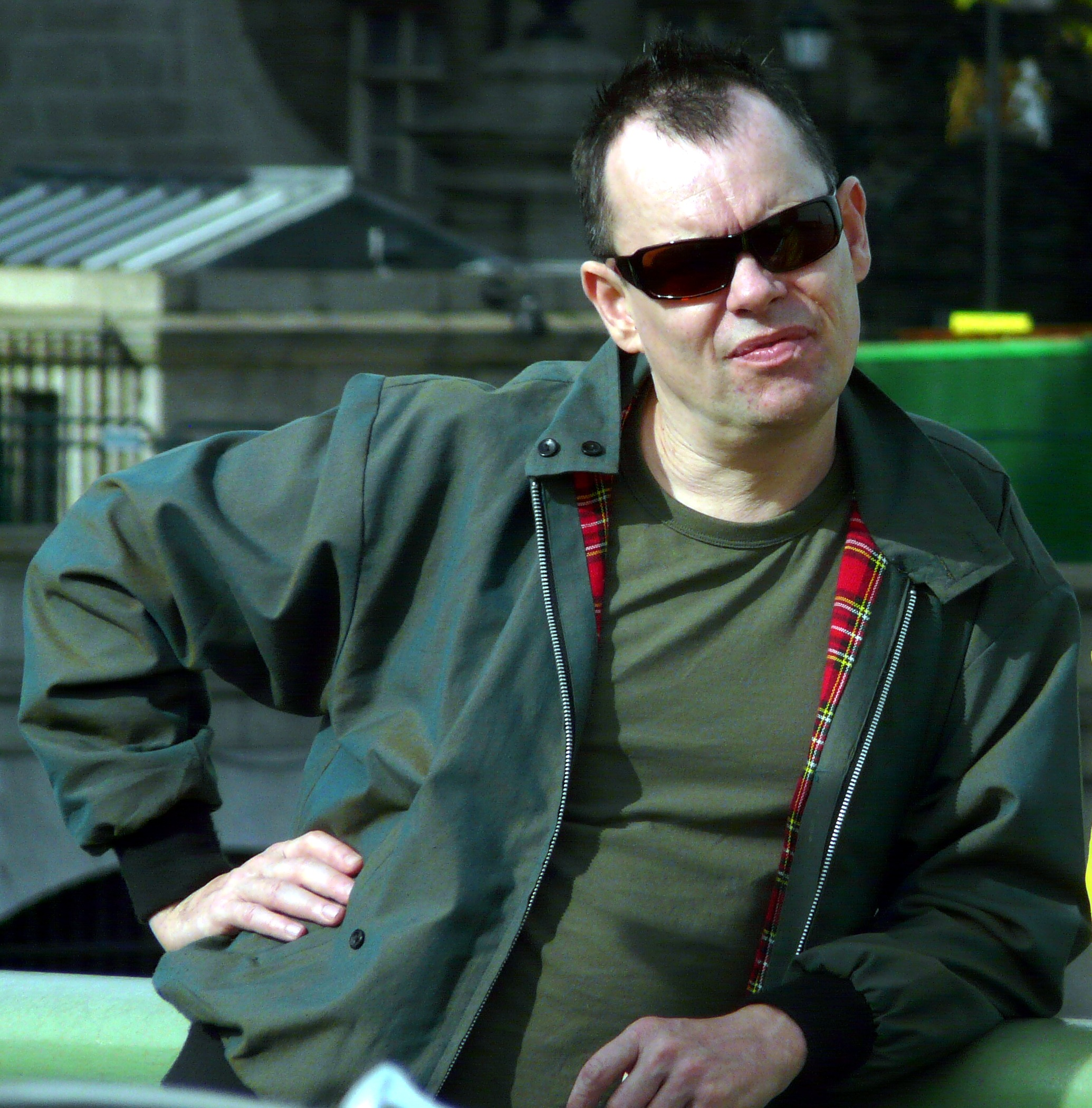 Kevin Eldon cropped from a photo at the Block the Bridge Block The Bill Demo, Westminster Bridge. Colour levels adjusted